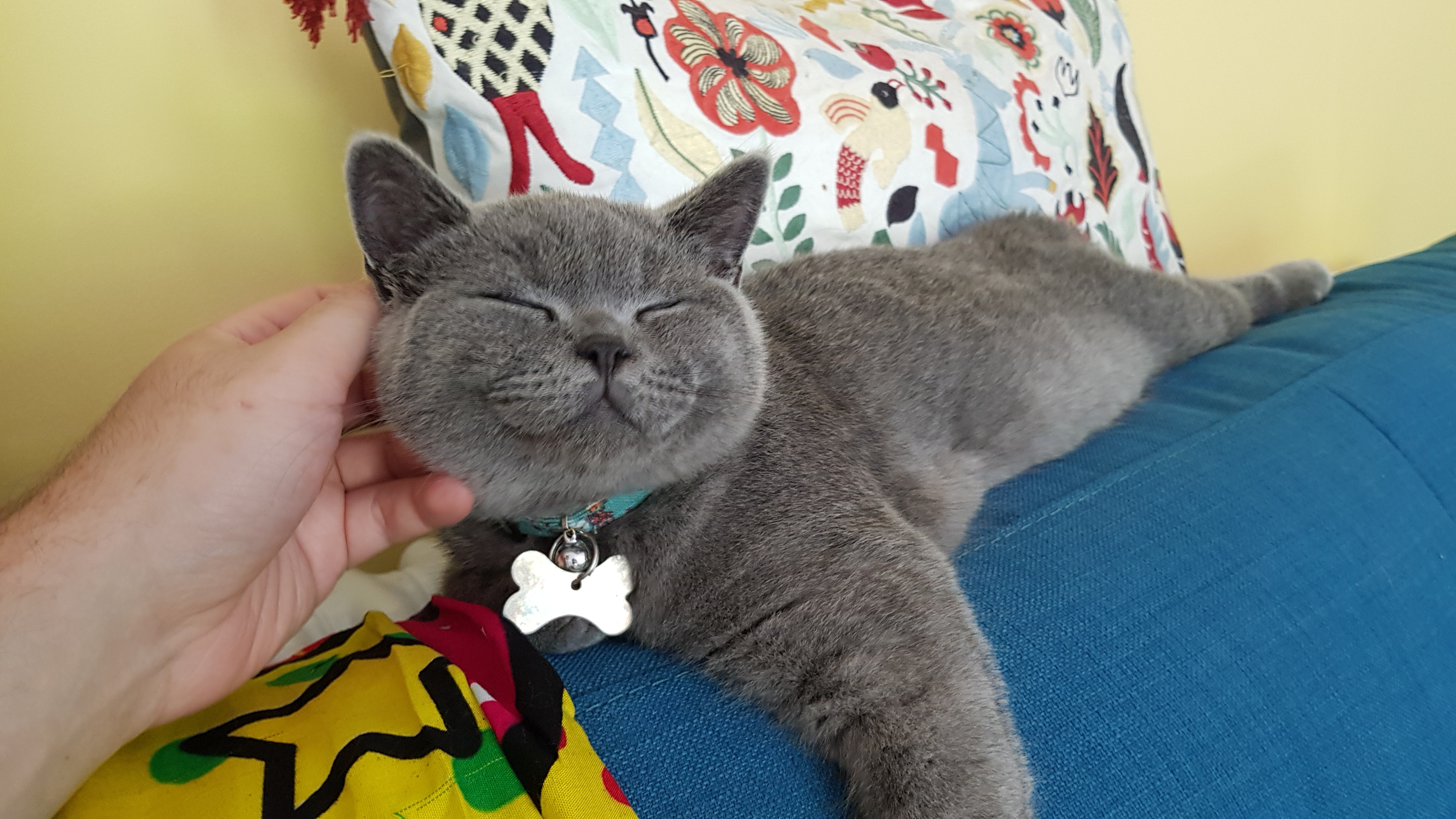 British Shorthair blue cat smiling